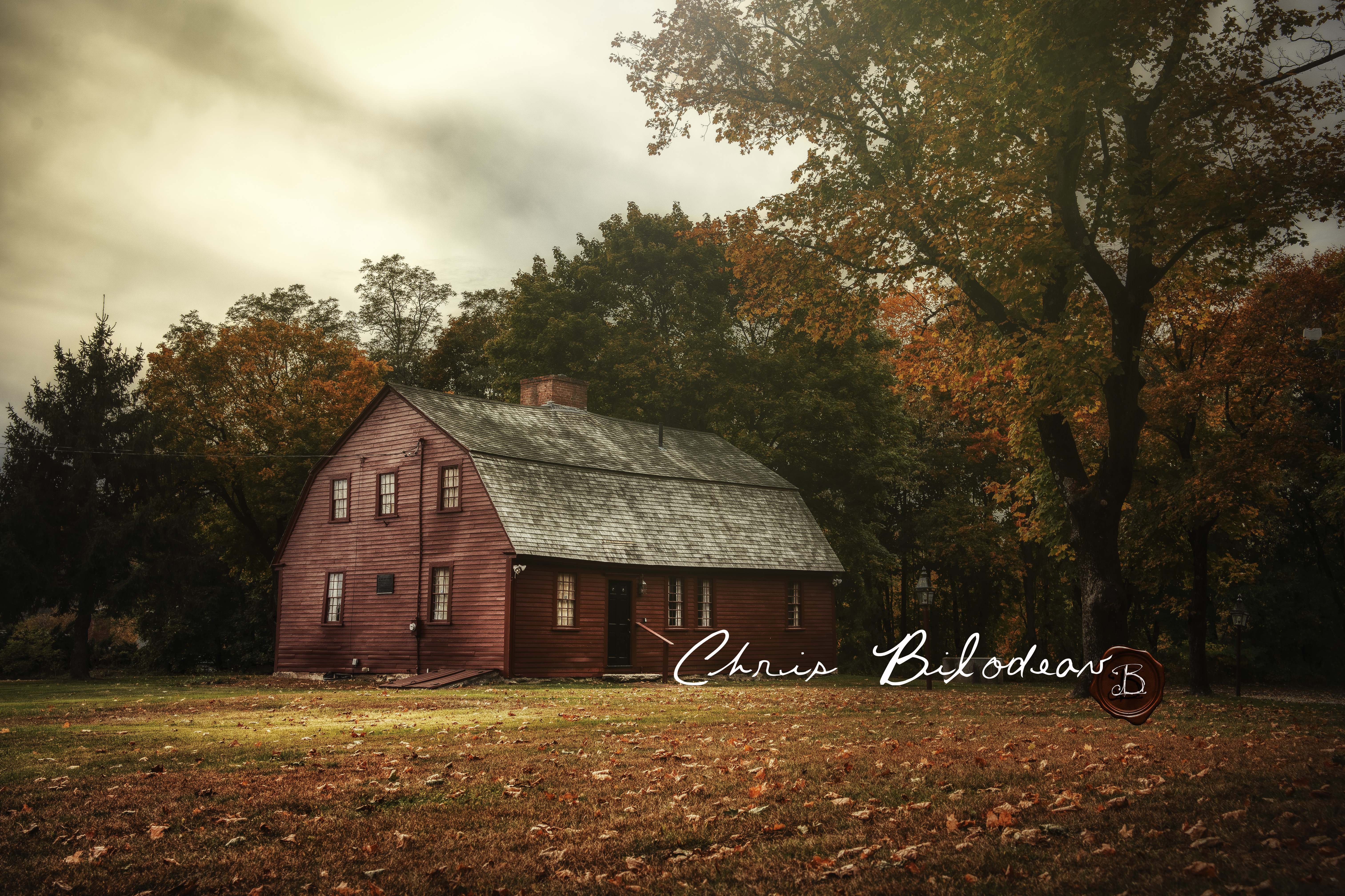 John Farnum House in Uxbridge, MA